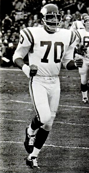 Former Minnesota Vikings defensive end Jim Marshall